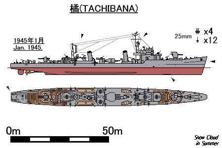 Figure of Japanese Destroyer Tachibana(Tachibna-class or new-D-class), in January 1945.